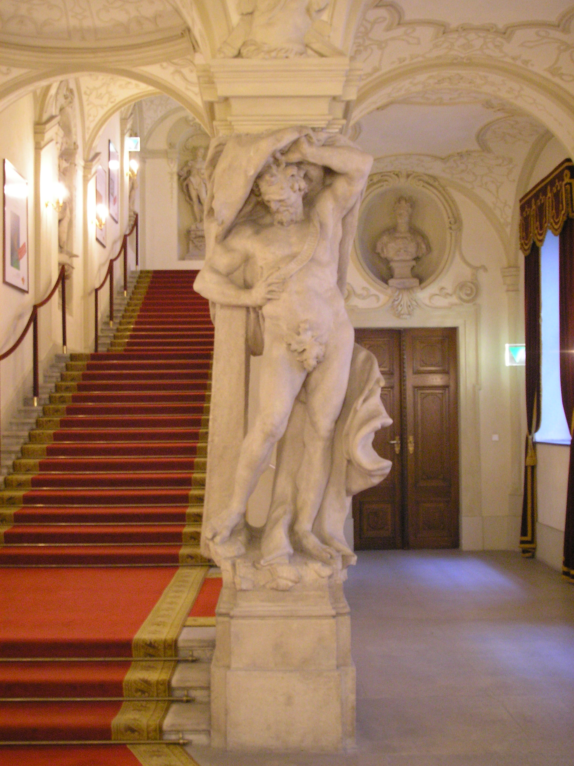 Statue of Atlas at the Grand Staircase inside the Palais Kinsky in Vienna. Built in the baroque era for the noble Kinsky von Wichnitz und Tettau family.